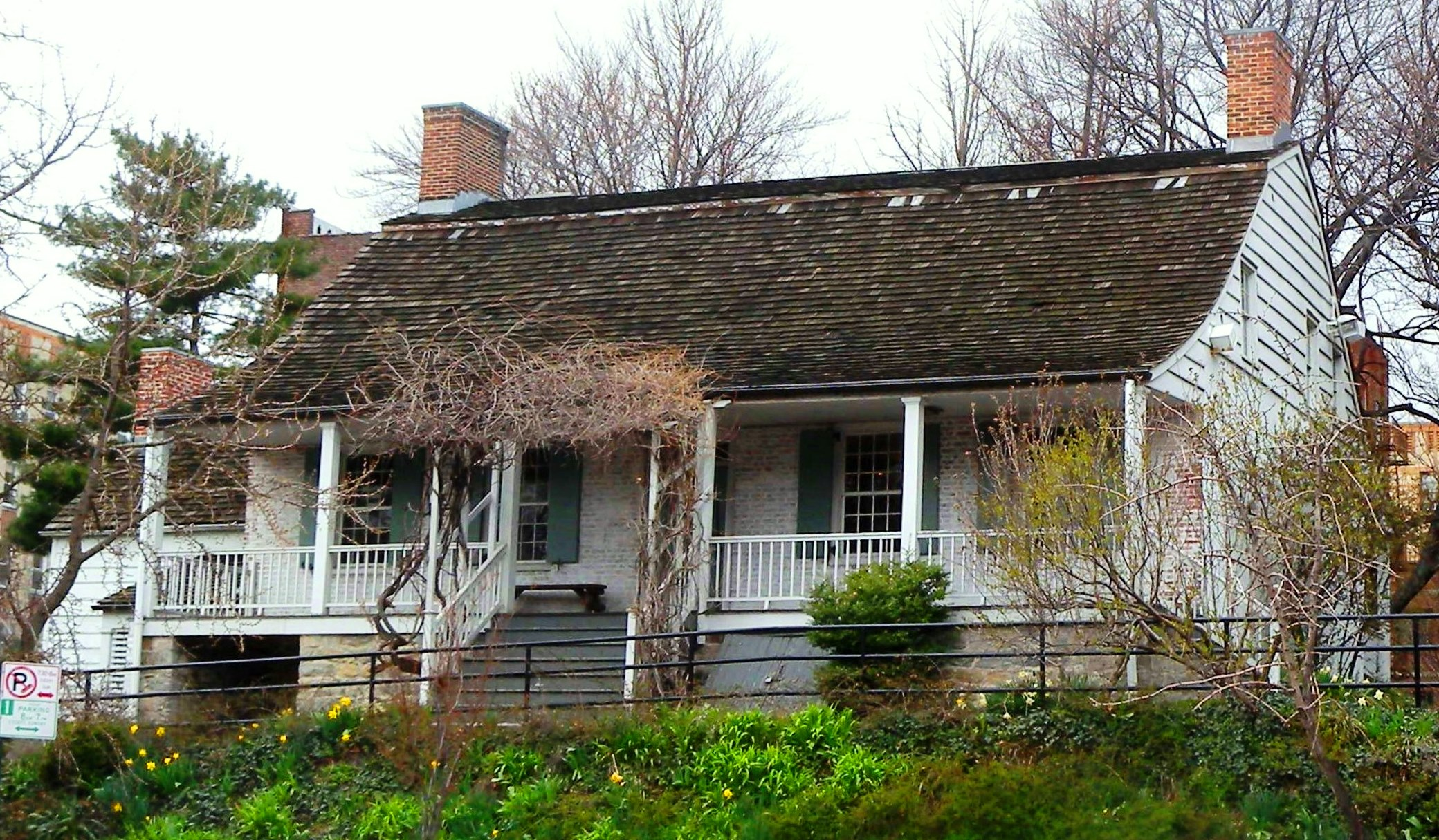 Looking west across Broadway at farmhouse on a cloudy midday.